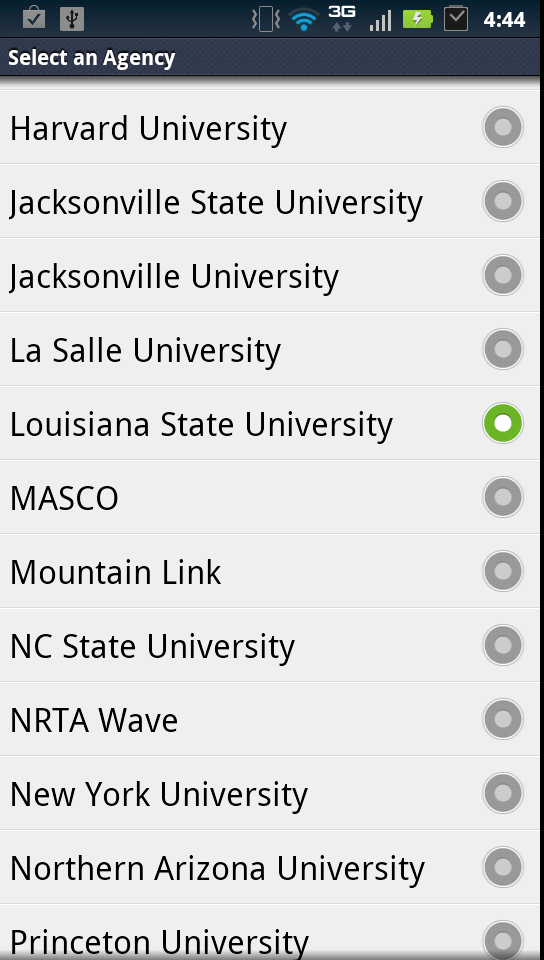 Screenshot_TransLoc on Android